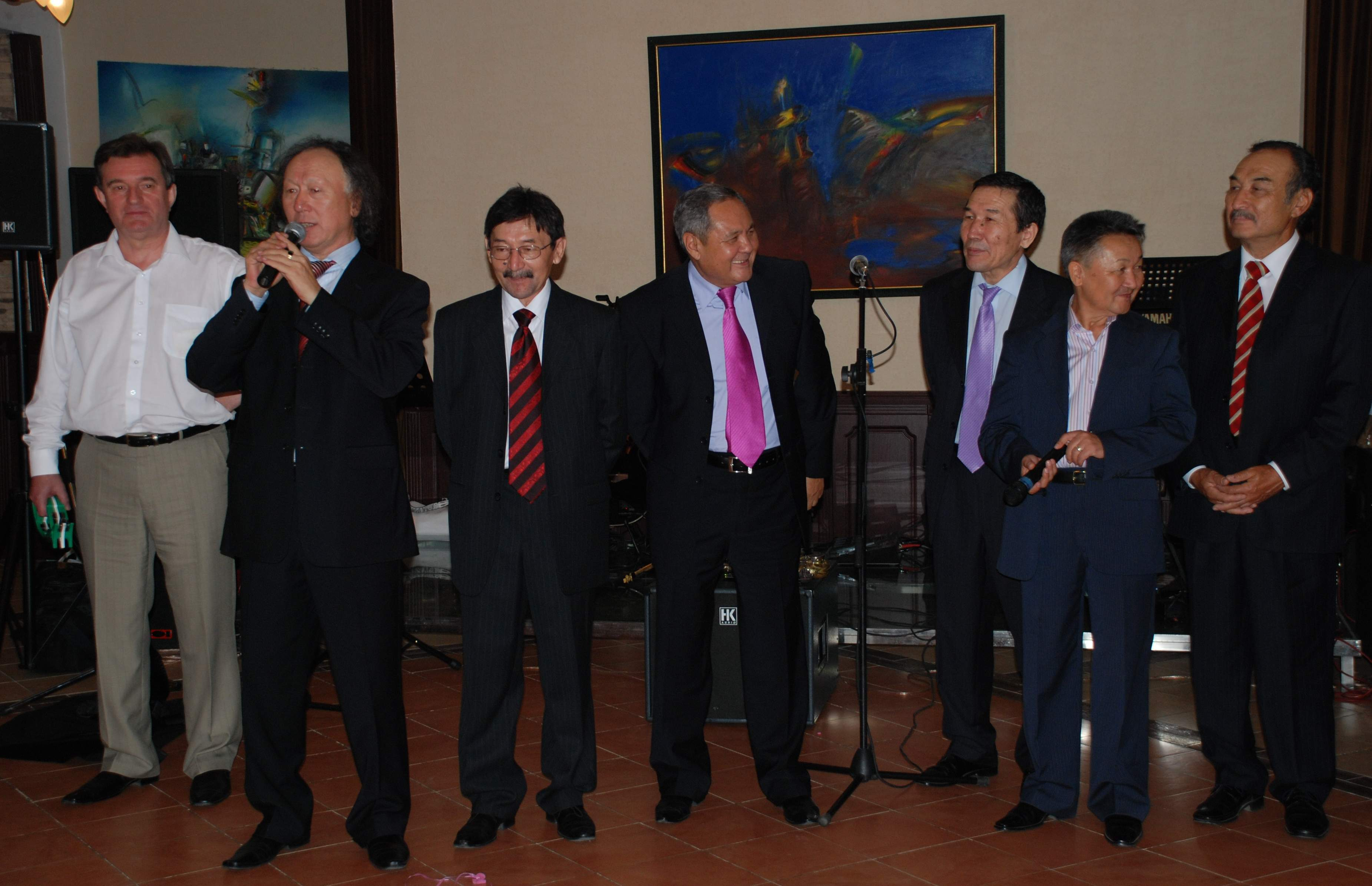 Dosukasan 2008